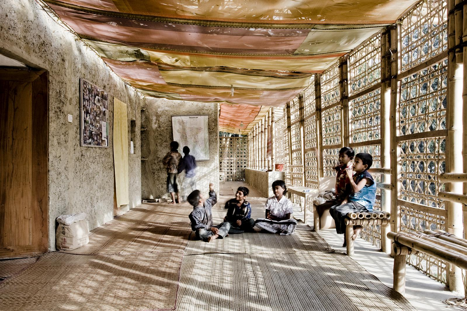 Meti School, Haripur, Rajshahi, Bangladesh, designed and completed by German architect Anna Heringer.